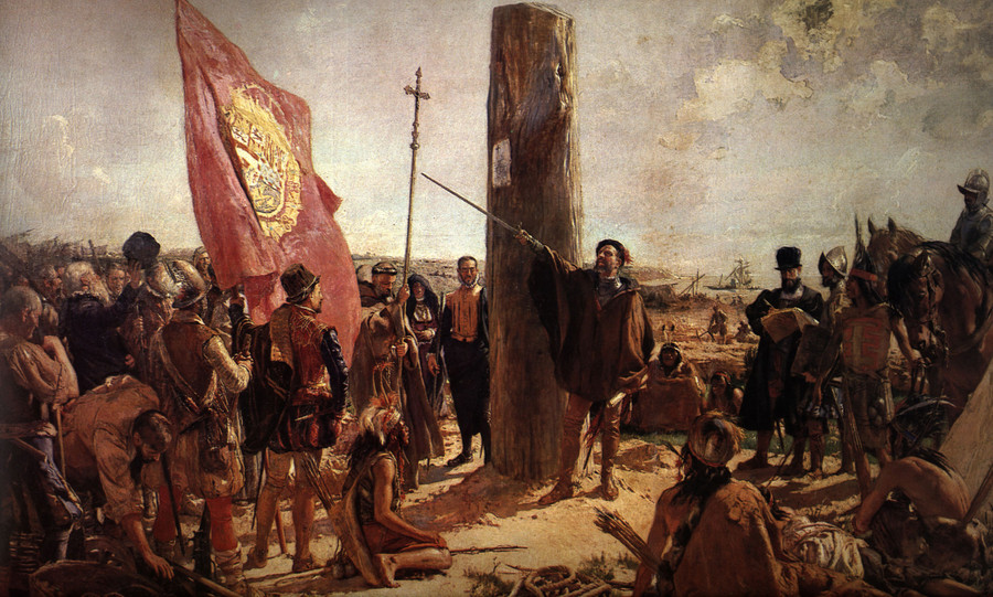 Fundation of Buenos Aires (2nd version, 1923